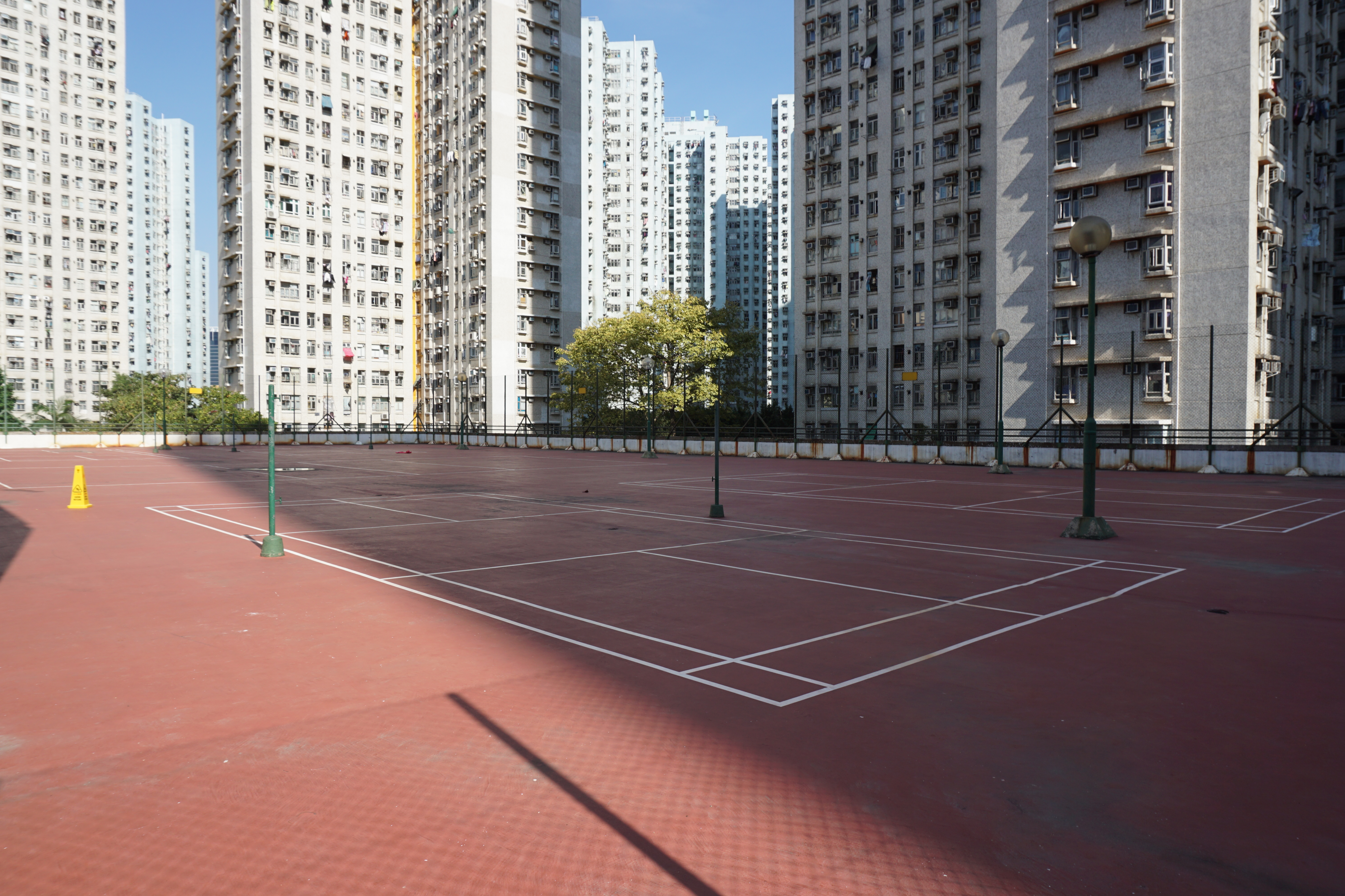 Siu Hei Court in Tuen Mun, Hong Kong.